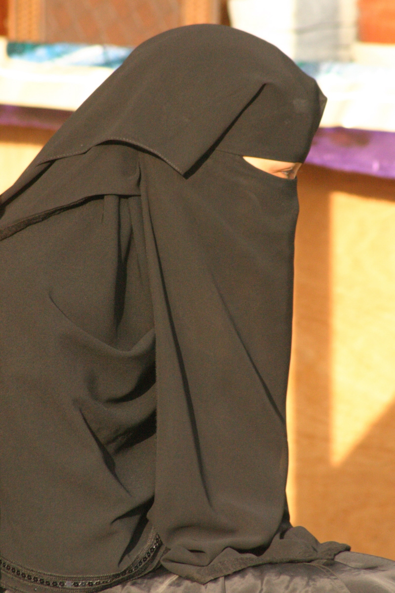 Some Saudi Arabian woman choose to wear Islamic clothing, as required